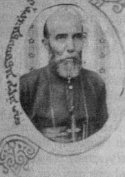 Bishop Elias of Alqosh